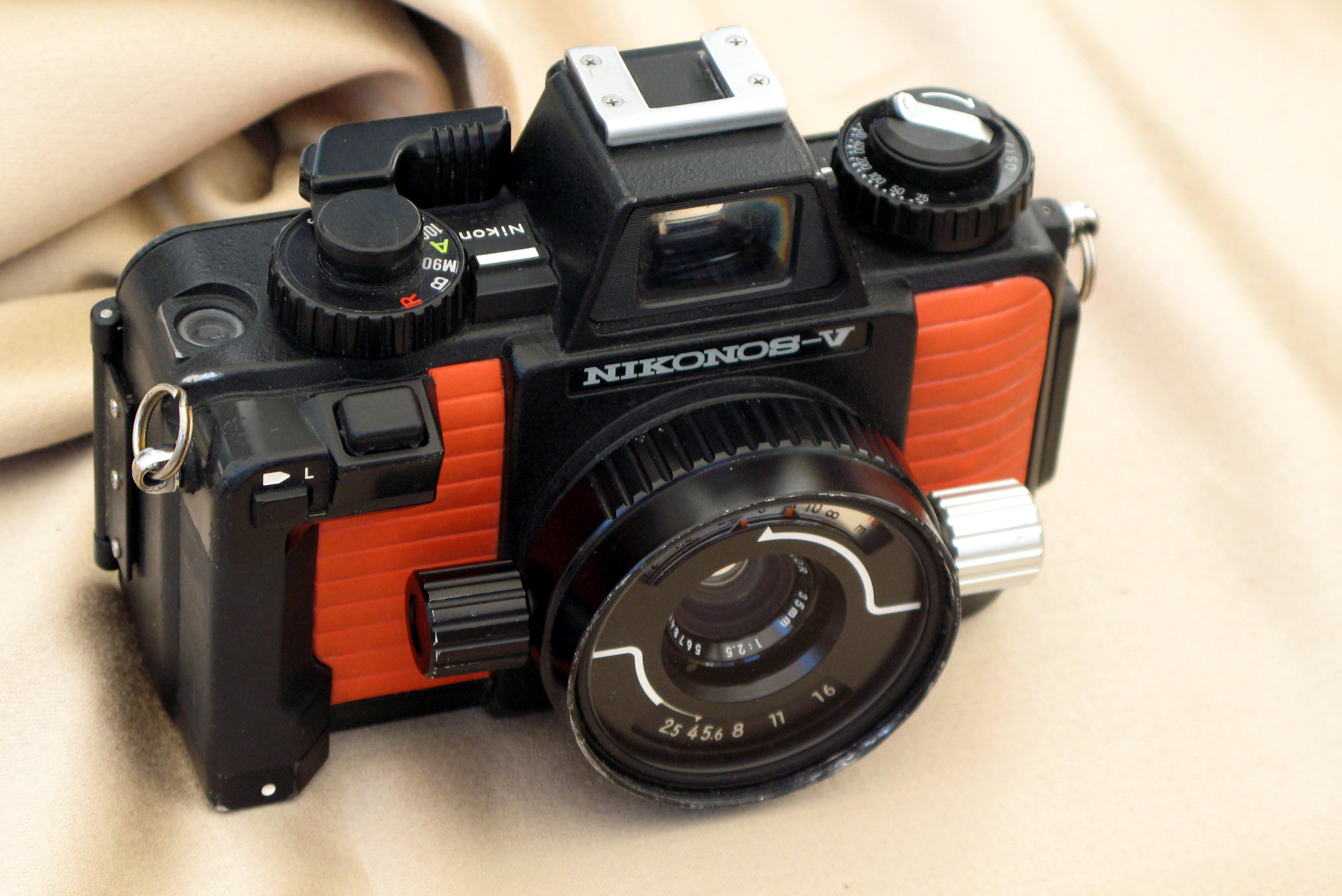 Nikonos-V